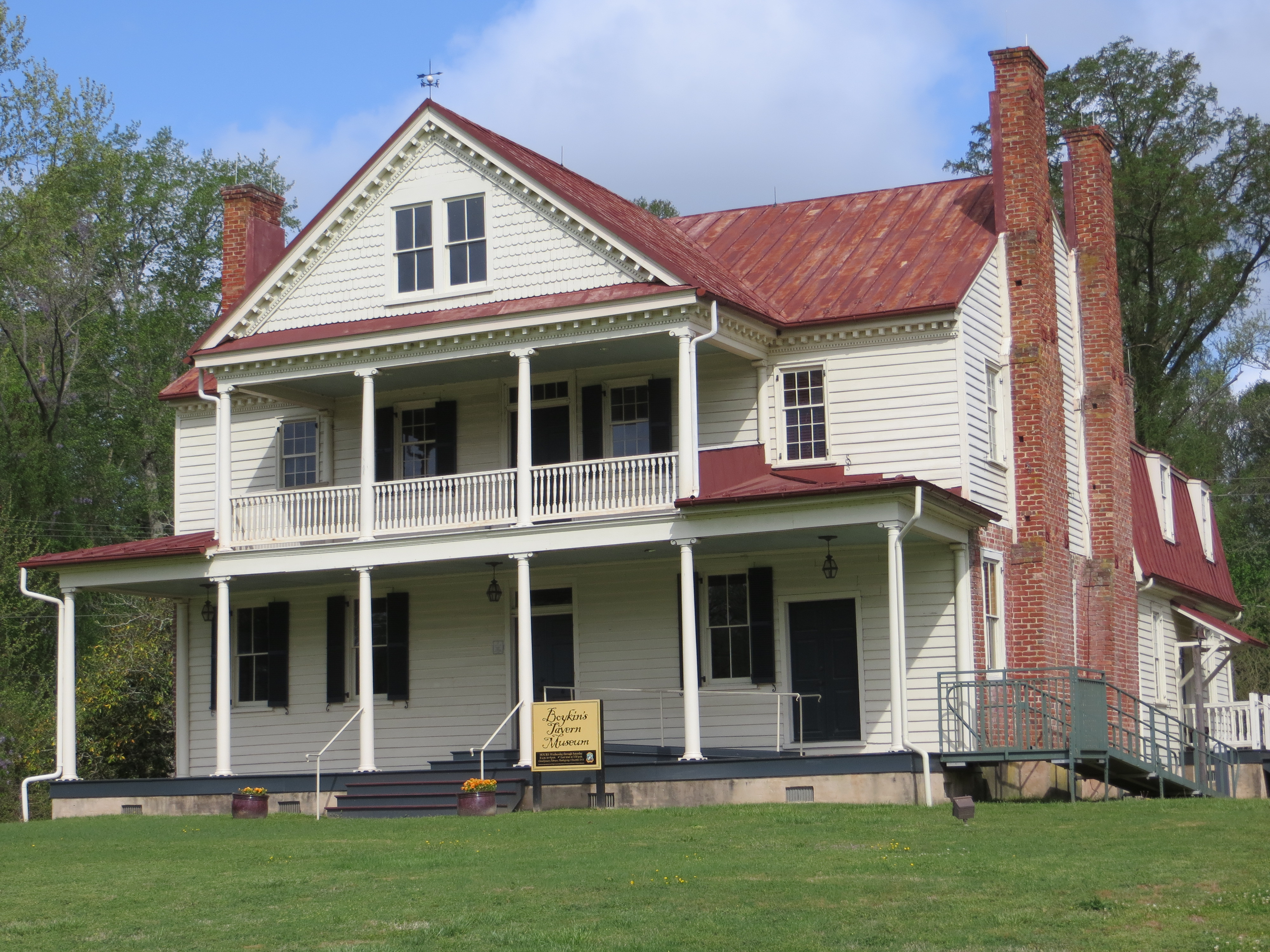 Side view, Boykin's Tavern, Isle of Wight, Virginia